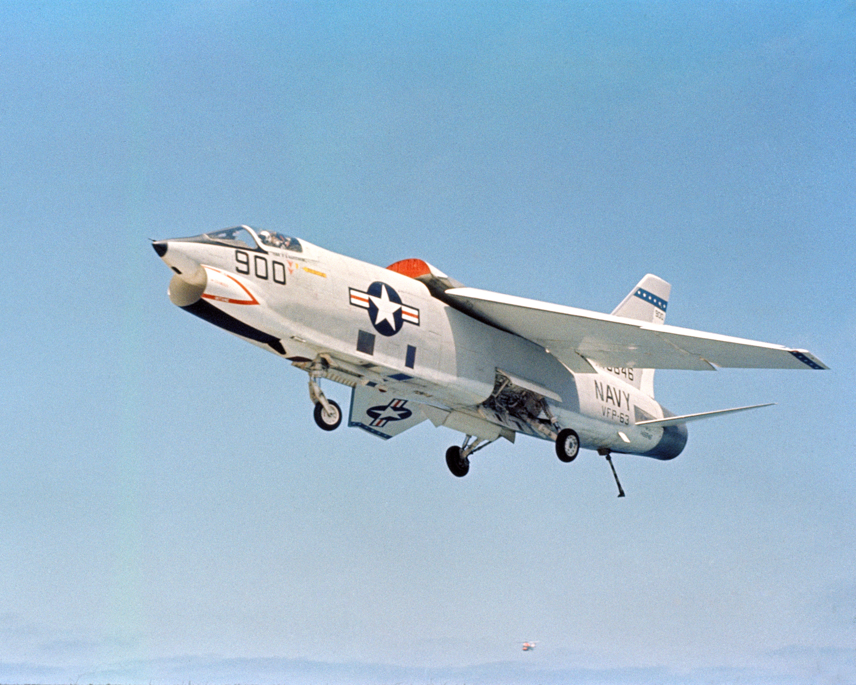 A U.S. Navy Vought RF-8A Crusader (BuNo 146846) of Photographic Reconnaissance Squadron 63 (VFP-63) Det. A "Eyes of the Fleet" approaches for a landing aboard the attack aircraft carrier USS Midway (CVA-41), circa in 1961-1962. Note: The date given (1 September 1968) has to be incorrect, as the Midway was not in service then. The Piasecki HUP Retriever plane guard helicopter visible in the background points to the fact that this photo was taken in the early 1960s, since Kaman UH-2 Seasprite helicopters replaced the HUP aboard Midway in 1963. Also, VFP-63 was designated VCP-63 before 1 July 1961.[1]